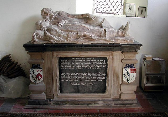 St Eanswith, Brenzett, Kent - Tomb chest Tomb chest of John Fagge died 1639.